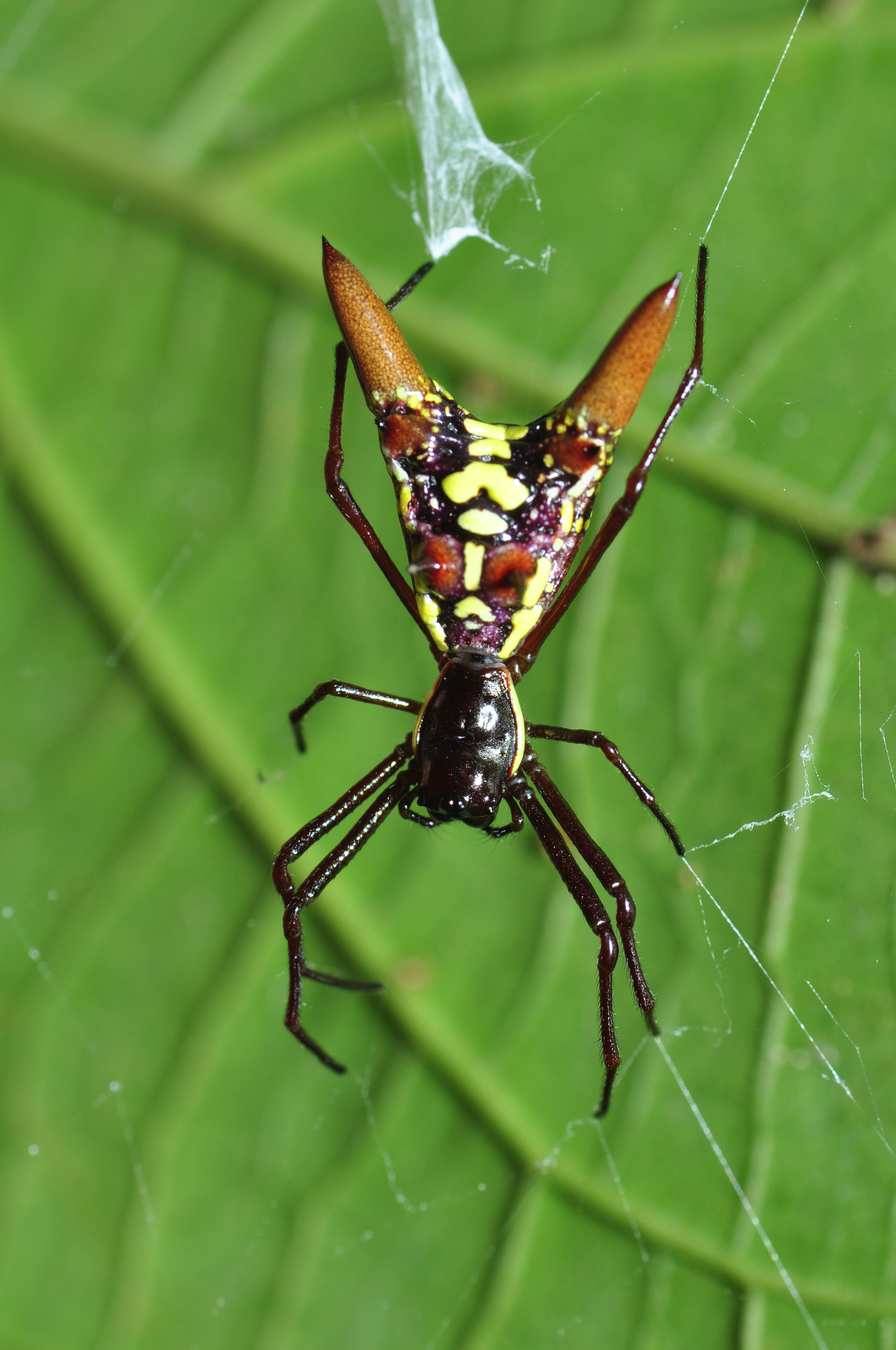 Thanks to ZyllyCandle for ID